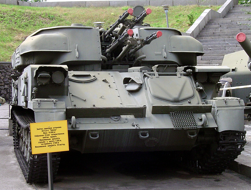 ZSU-23-4 Shilka on display at the Museum of the Great Patriotic War, Kiev.